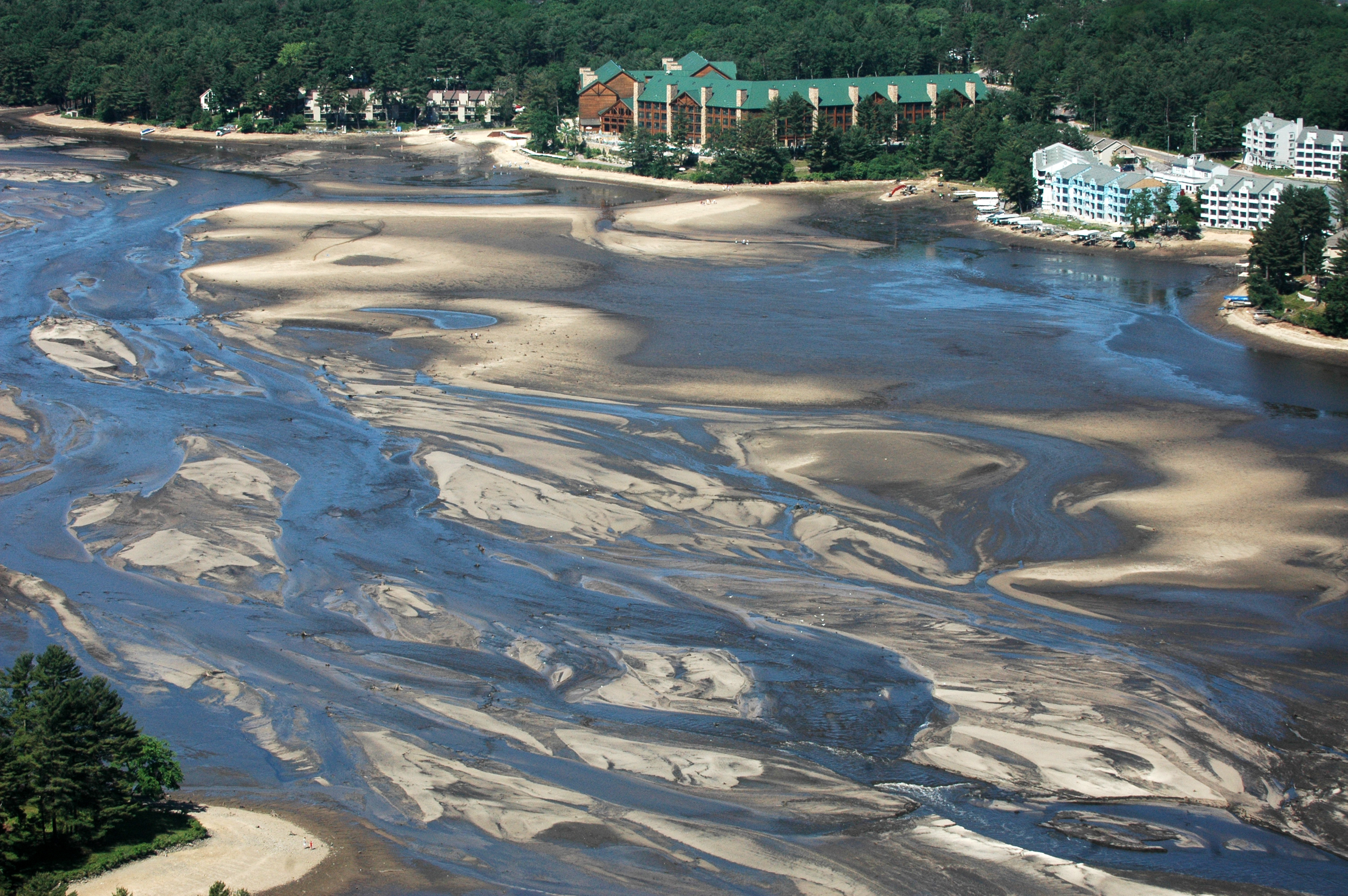 Lake Delton,WI, June 14, 2008 -- Lake Delton drained itself during the recent flooding when high water and fast currents gouged mini-rivers leading from the lake. Barry Bahler/FEMA. Wilderness on the Lake resort is the green roof facility.